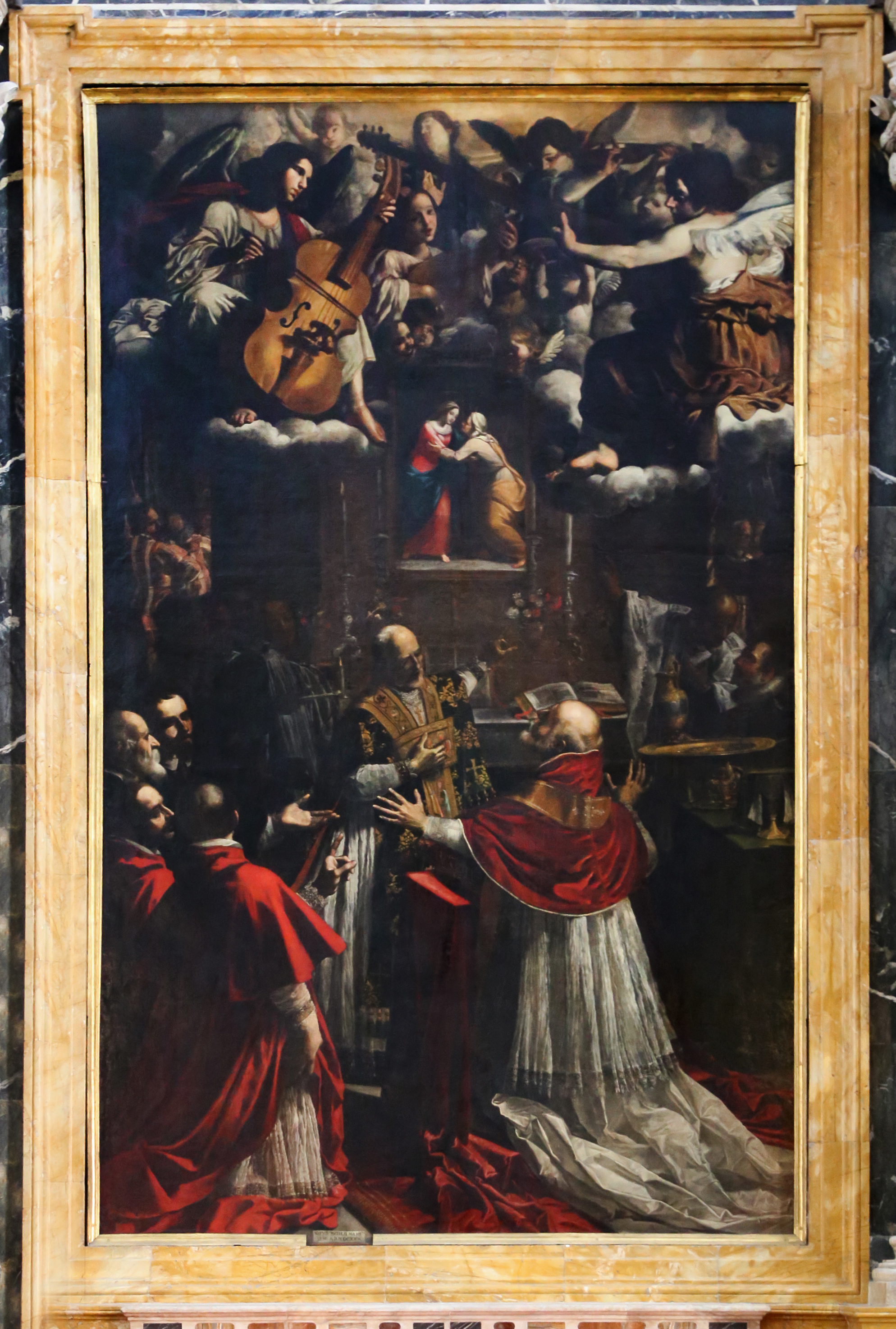 Santa Maria di Provenzano (Siena)